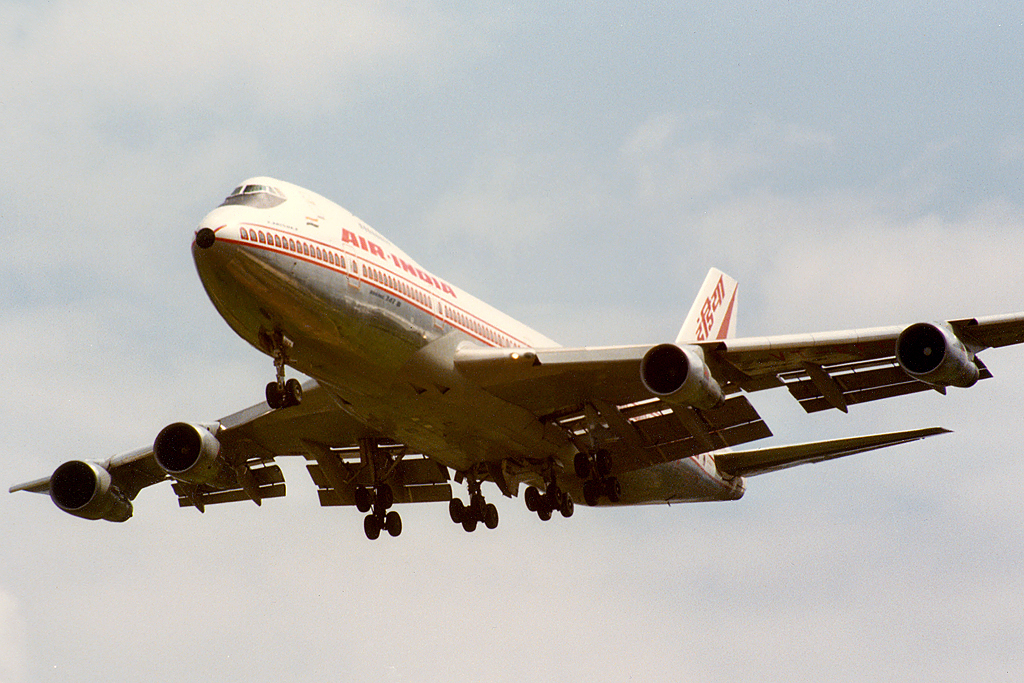 A Boeing 747-200 (VT-EFO, Emperor Kanishka (कनिष्क)) landing at London Heathrow Airport